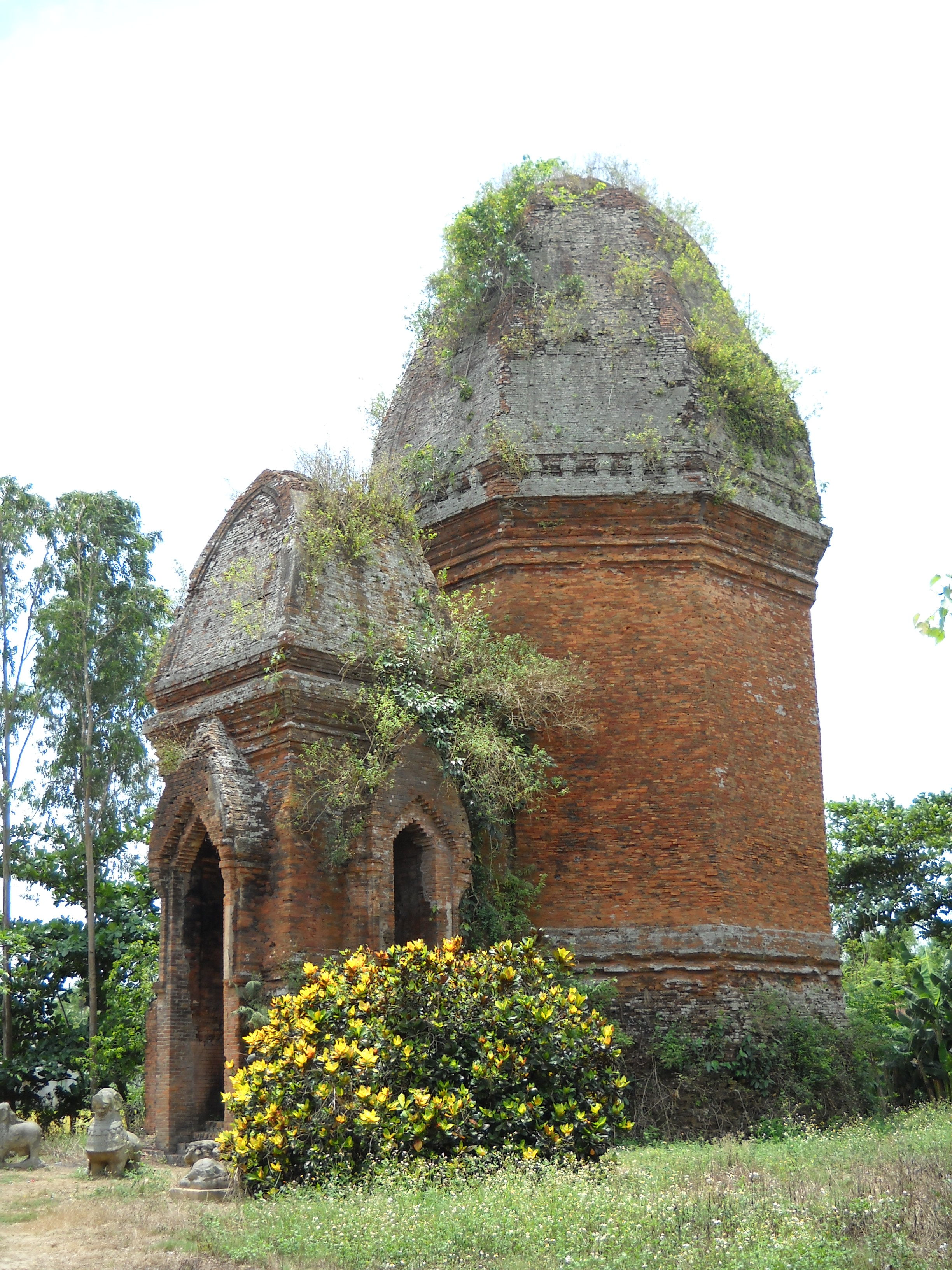 Cham tower Bang An in Dien Ban district, Quang Nam province, Vietnam